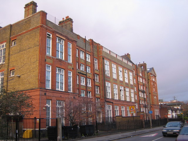 Hackney: Brook Community Primary School, E8 The building was originally constructed as a local Board school as Sigdon Road School in 1898, although this façade is in Dalston Lane. Details of the school can be found here